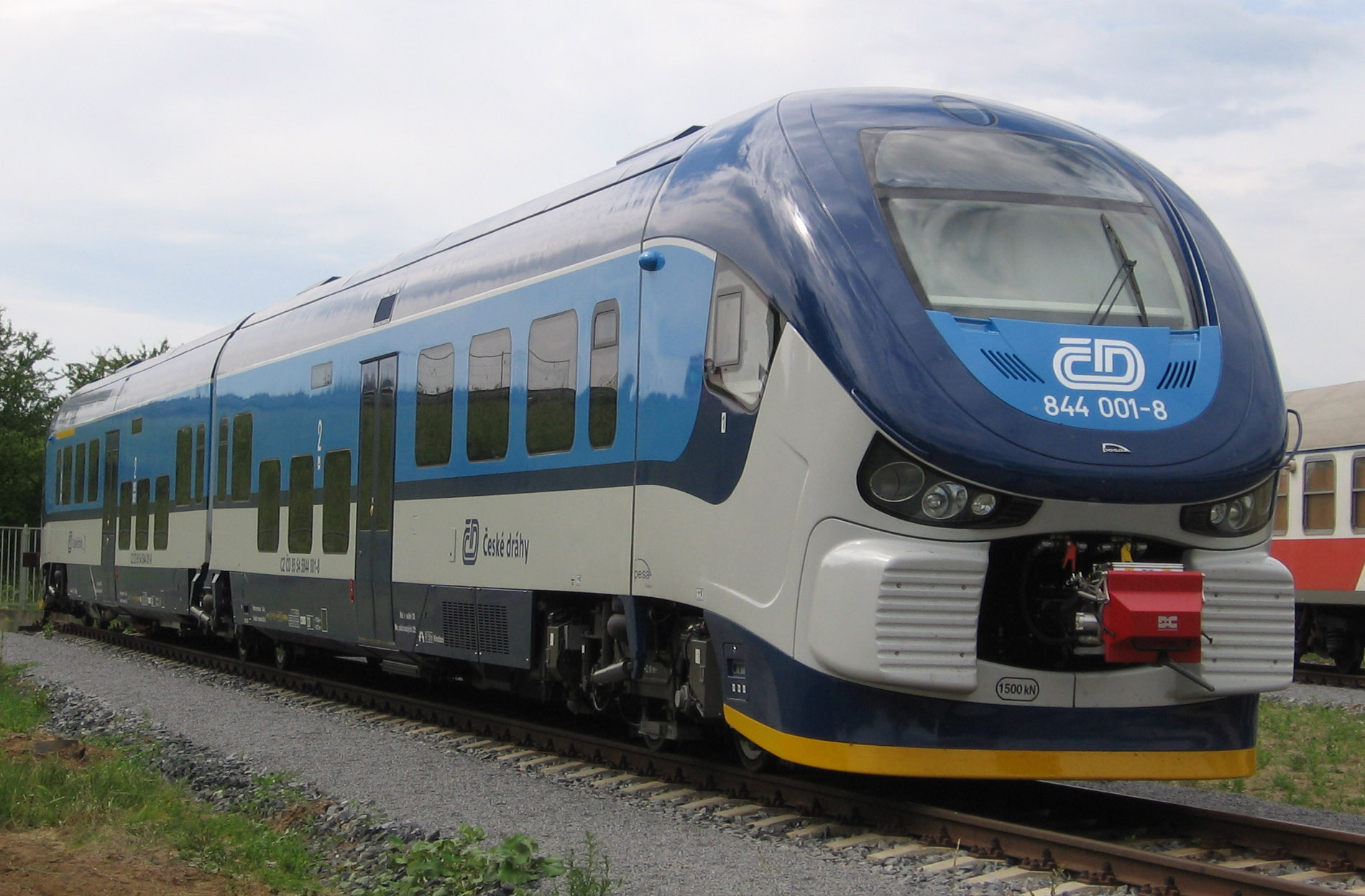 DMU 844.001 ČD in Cerhenice